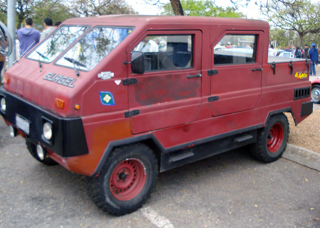 Gurgel X15 at a Gurgel meet in Sorocaba, Brazil